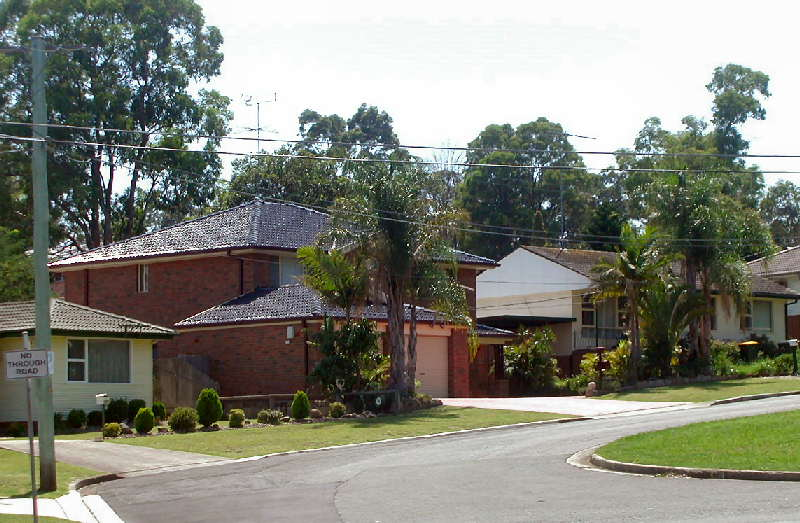 View of Florida Place, Seven Hills, New South Wales looking north from Leabons Lane. Image created on and edited by me January 21, 2006 and placed in the public domain.